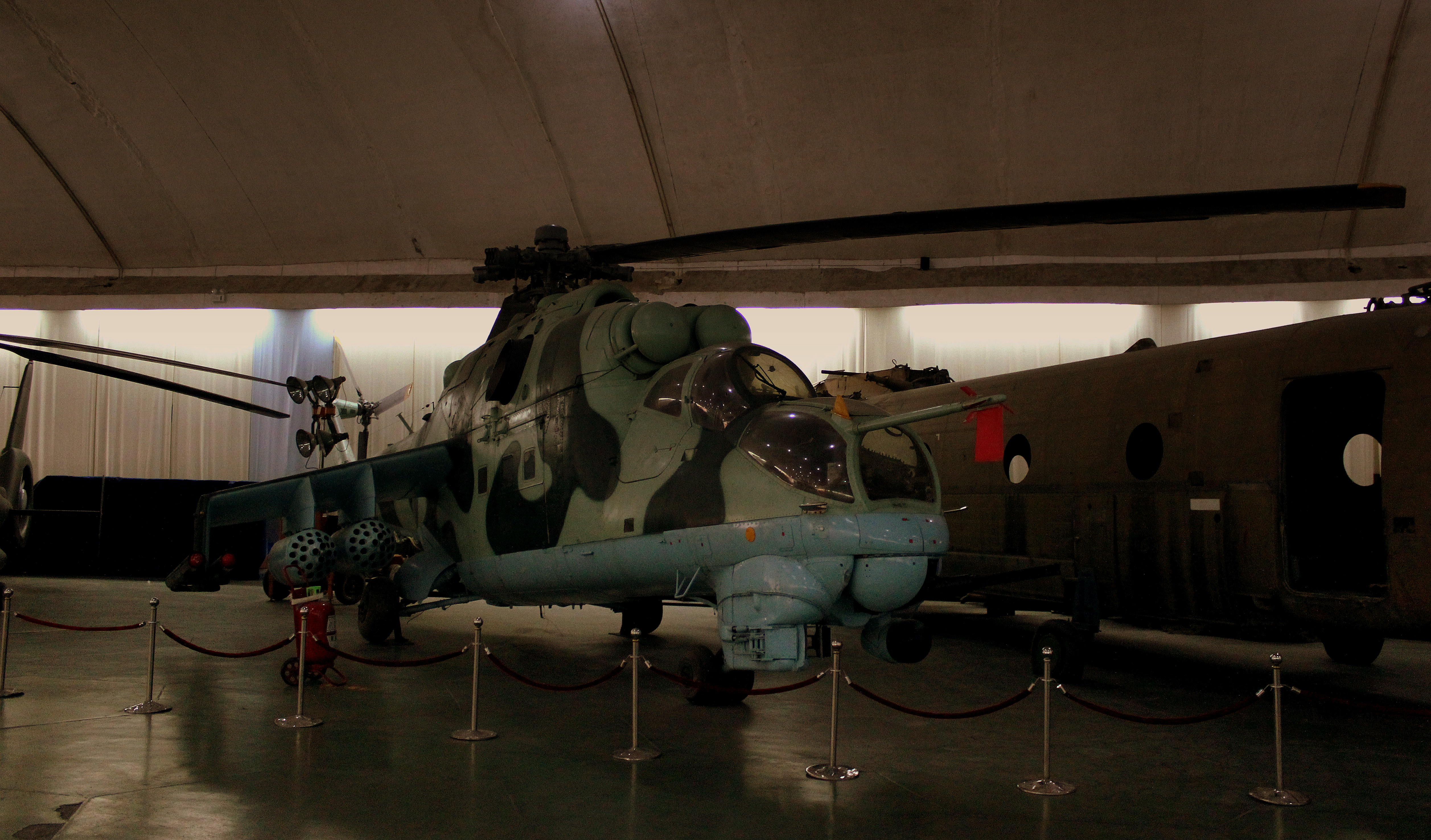 MIL24 HIND HELICOPTER GUNSHIP CHINA AVIATION MUSEUM AT THE DATANGSHAN CHINA OCT 2012